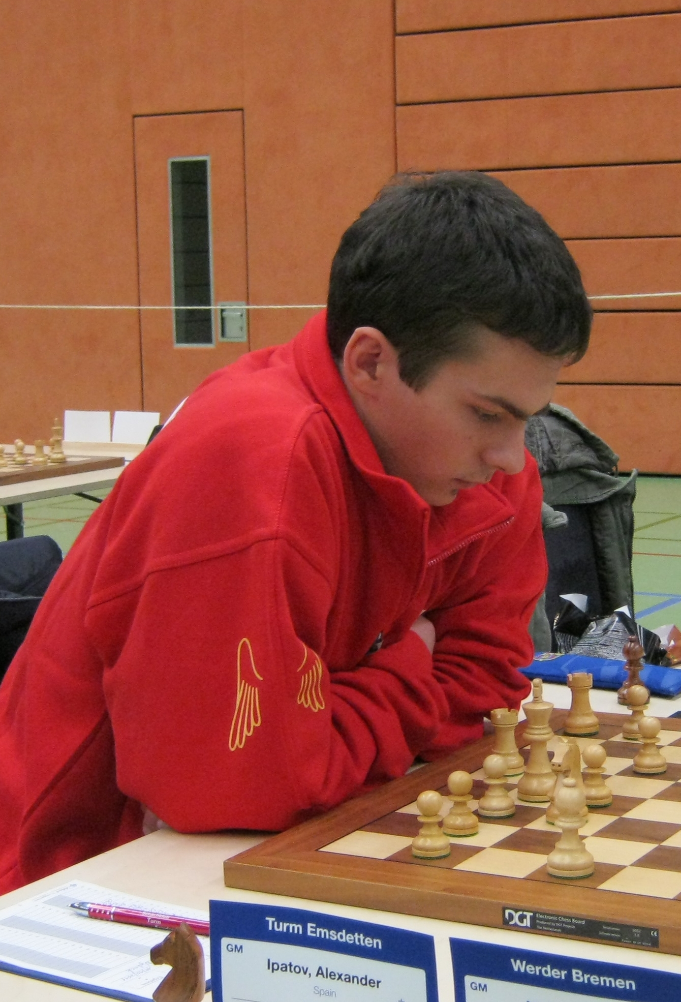 Alexander Ipatov, chess grandmaster from Spain